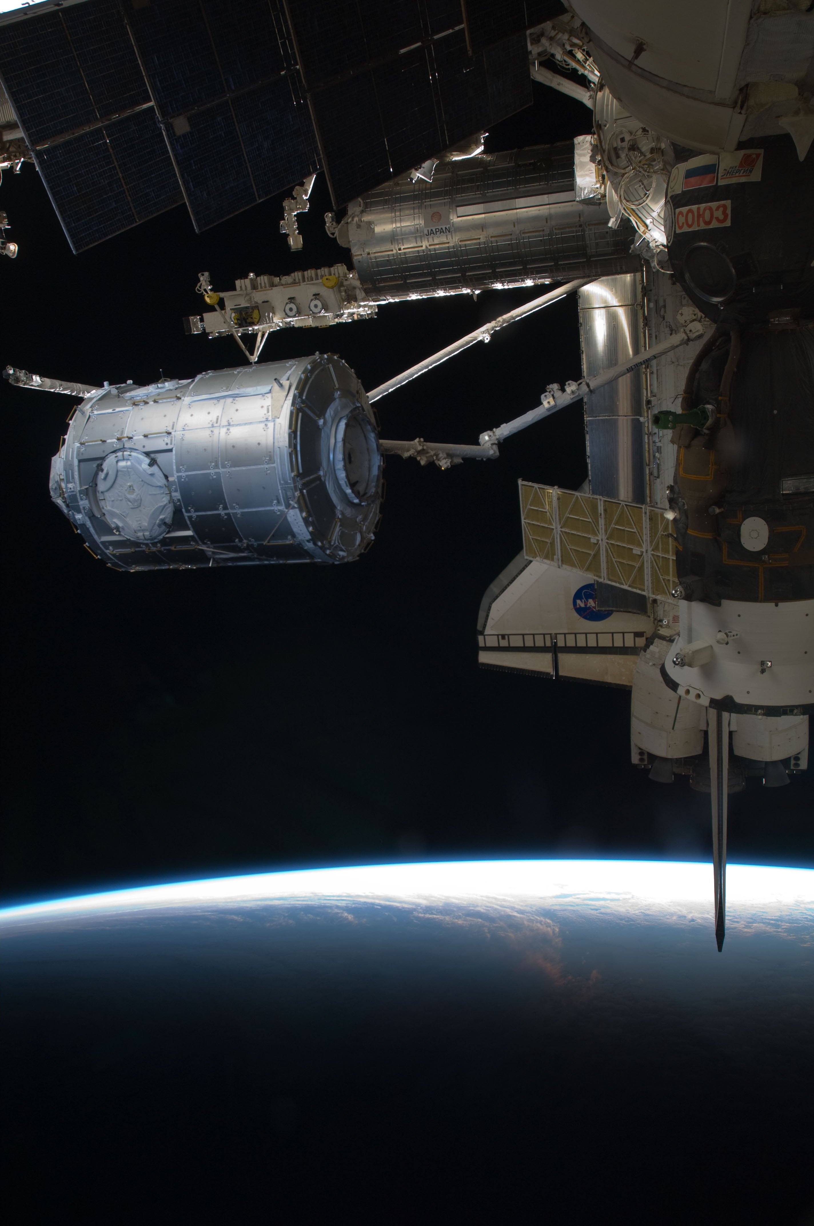 In the grasp of the station's Canadarm2, the Tranquility module is transferred from its stowage position in space shuttle Endeavour's (STS-130) payload bay to position it on the port side of the Unity node of the International Space Station. Tranquility was locked in place with 16 remotely-controlled bolts. Earth's horizon and the blackness of space provide the backdrop for the scene.